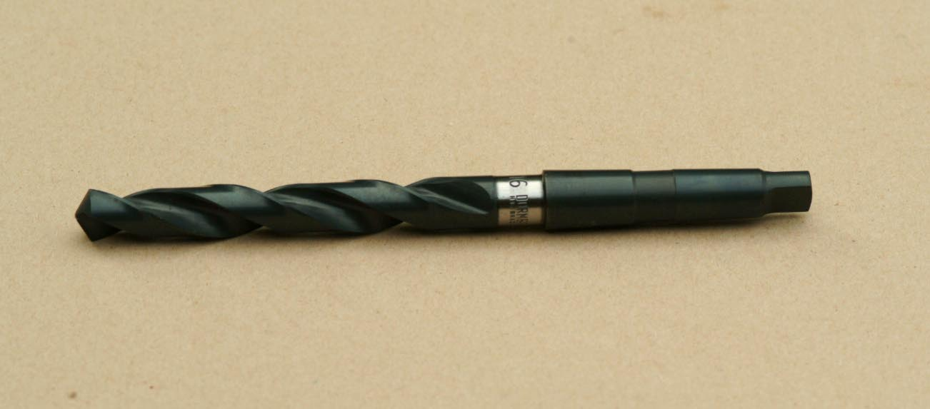 Morse taper twist drill bit. Drill retailed by Dormer, UK, but actually manufactured in Brazil in 2004